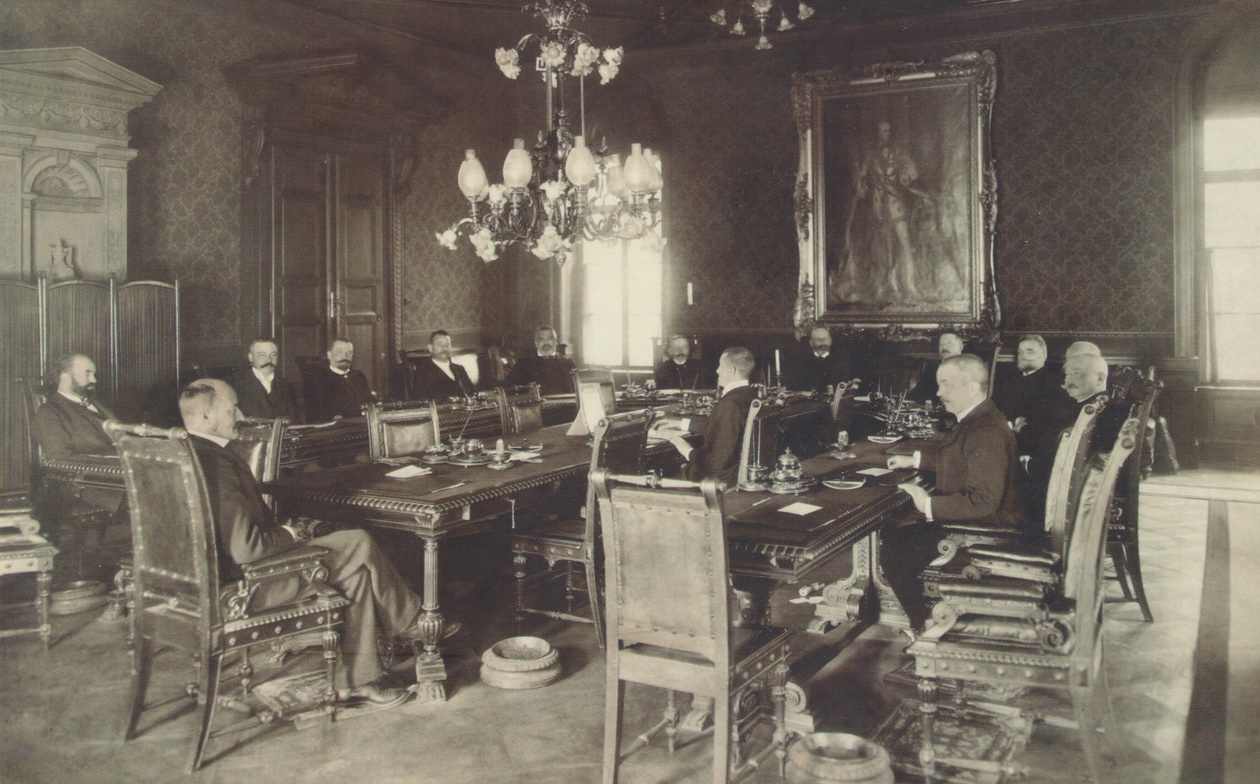 Mayor János Halmos chairs the last council meeting at the Old City Hall on 8 February 1900. The photograph is part of the Budapest History Museum's Kiscelli Photo Collection